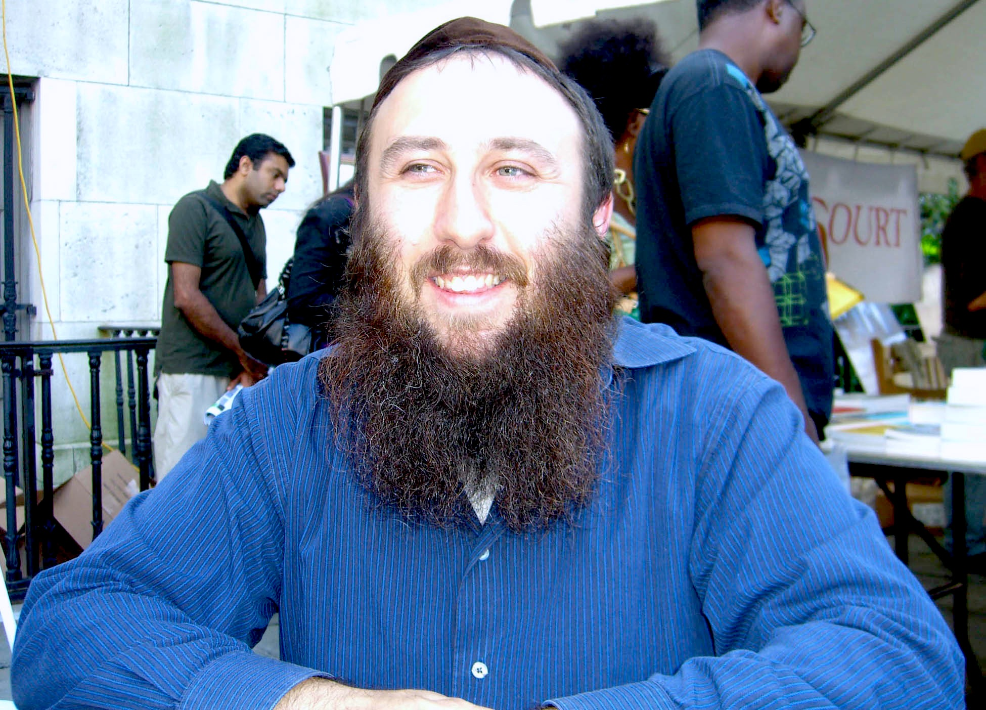 Writer Rabbi Simcha Weinstein at the 2009 Brooklyn Book Festival.